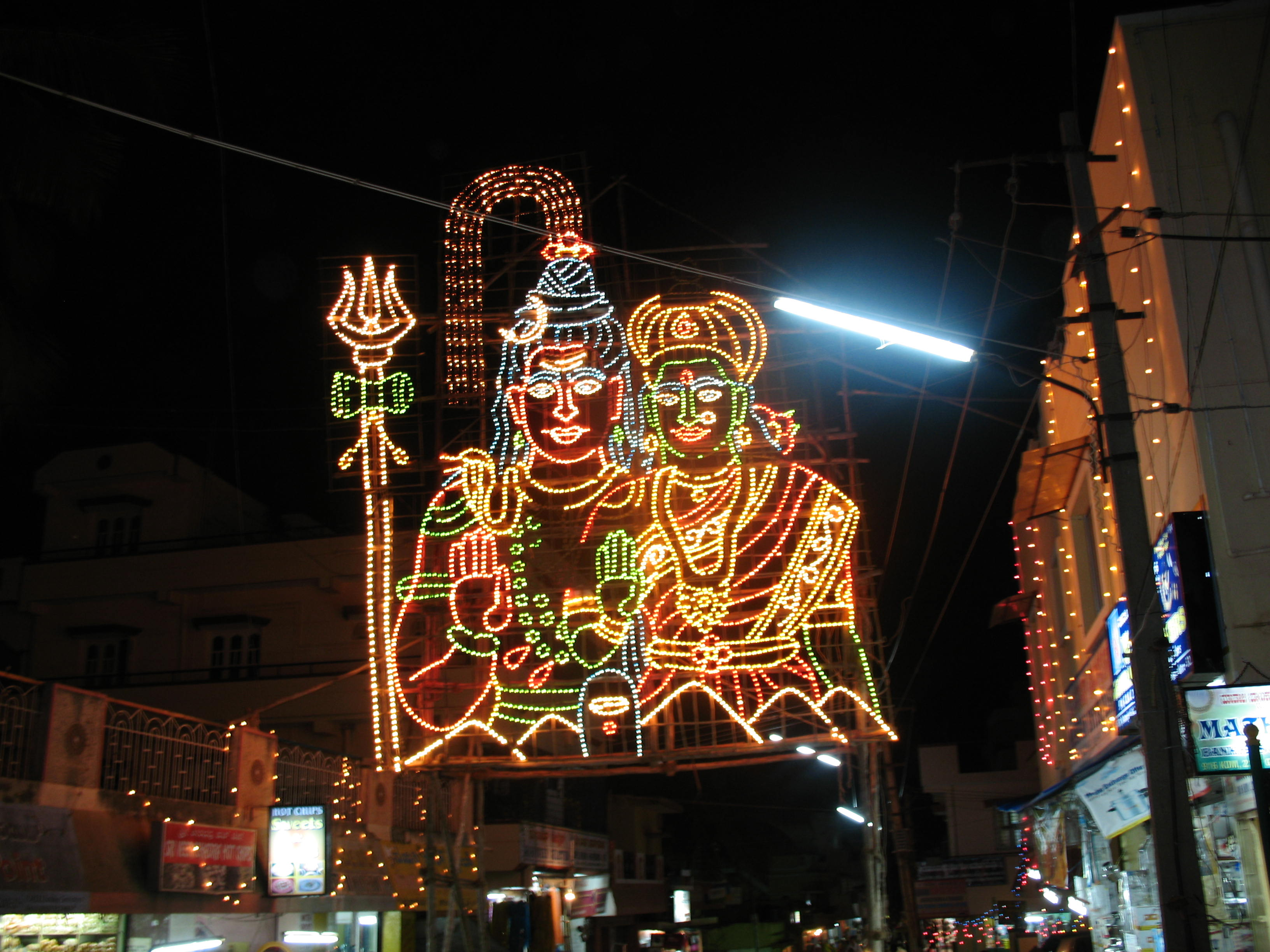 Bangalore is a land of celebrations too.. here is one